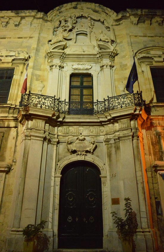 Gran Castellania